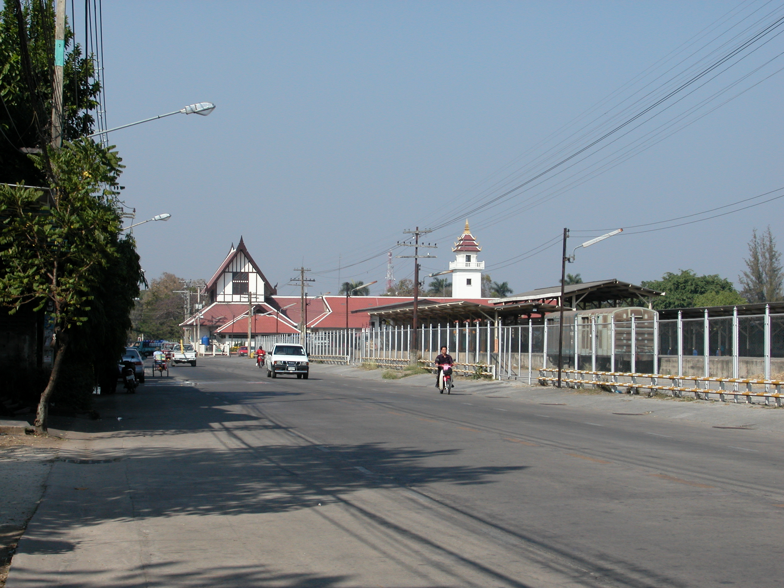 Chiang Mai Railway Station